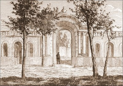 Madhouse of Sant Boi de Llobregat. La Ilustración Española y Americana ( 1873) Founded by Antoni Pujadas in 1854.